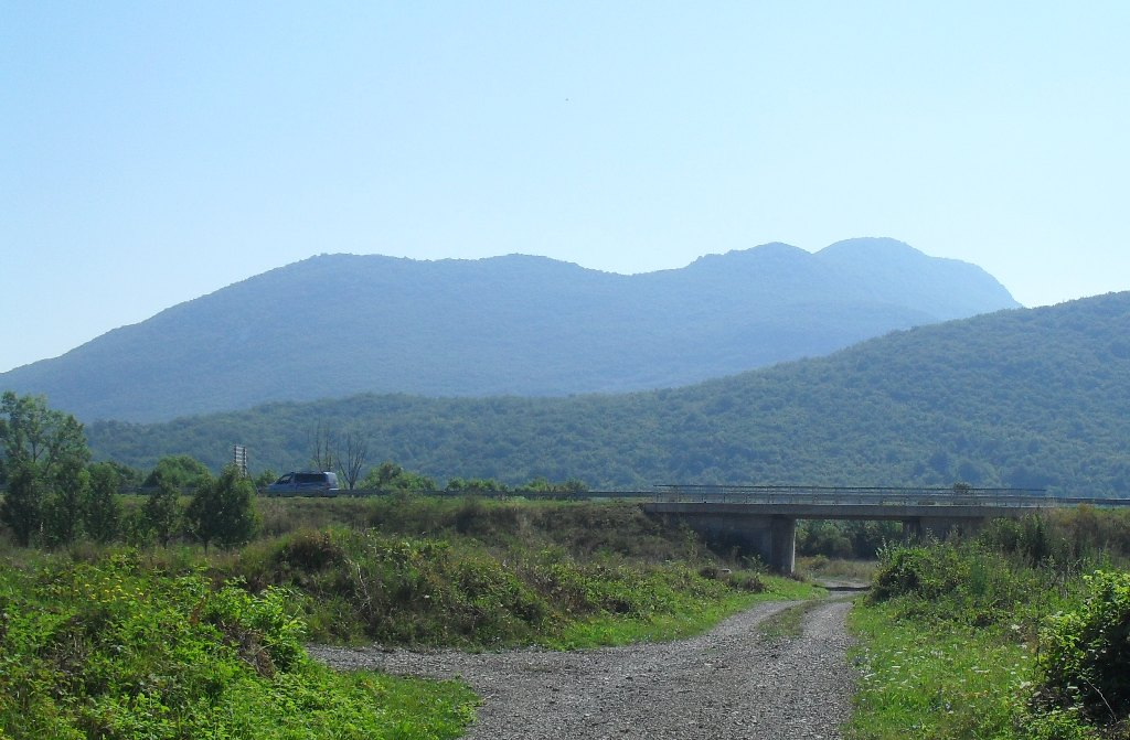 Troura mountain in Croatia, seen from Gornja Ploča.